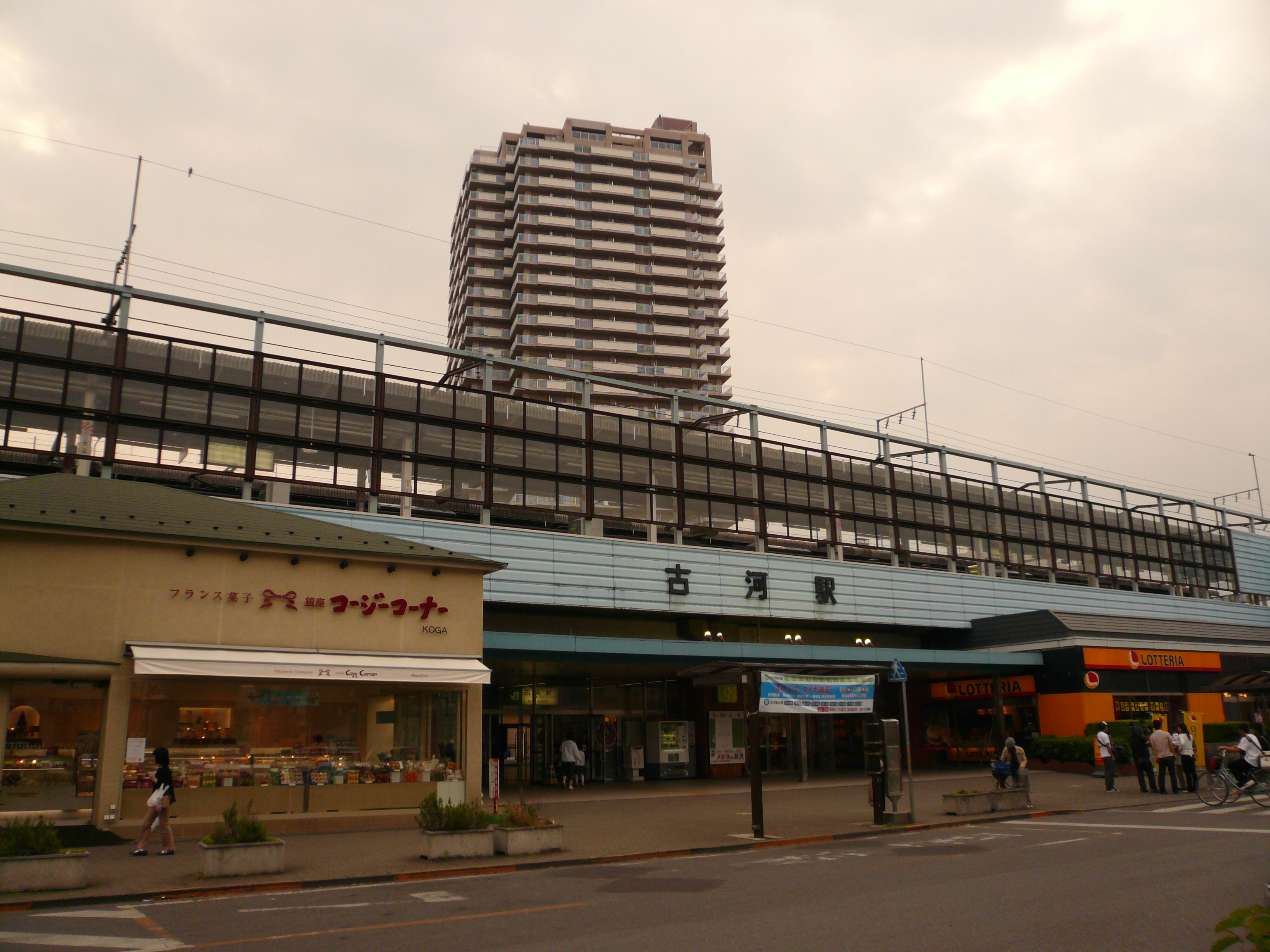 Koga Station, Koga, Ibaraki, Japan